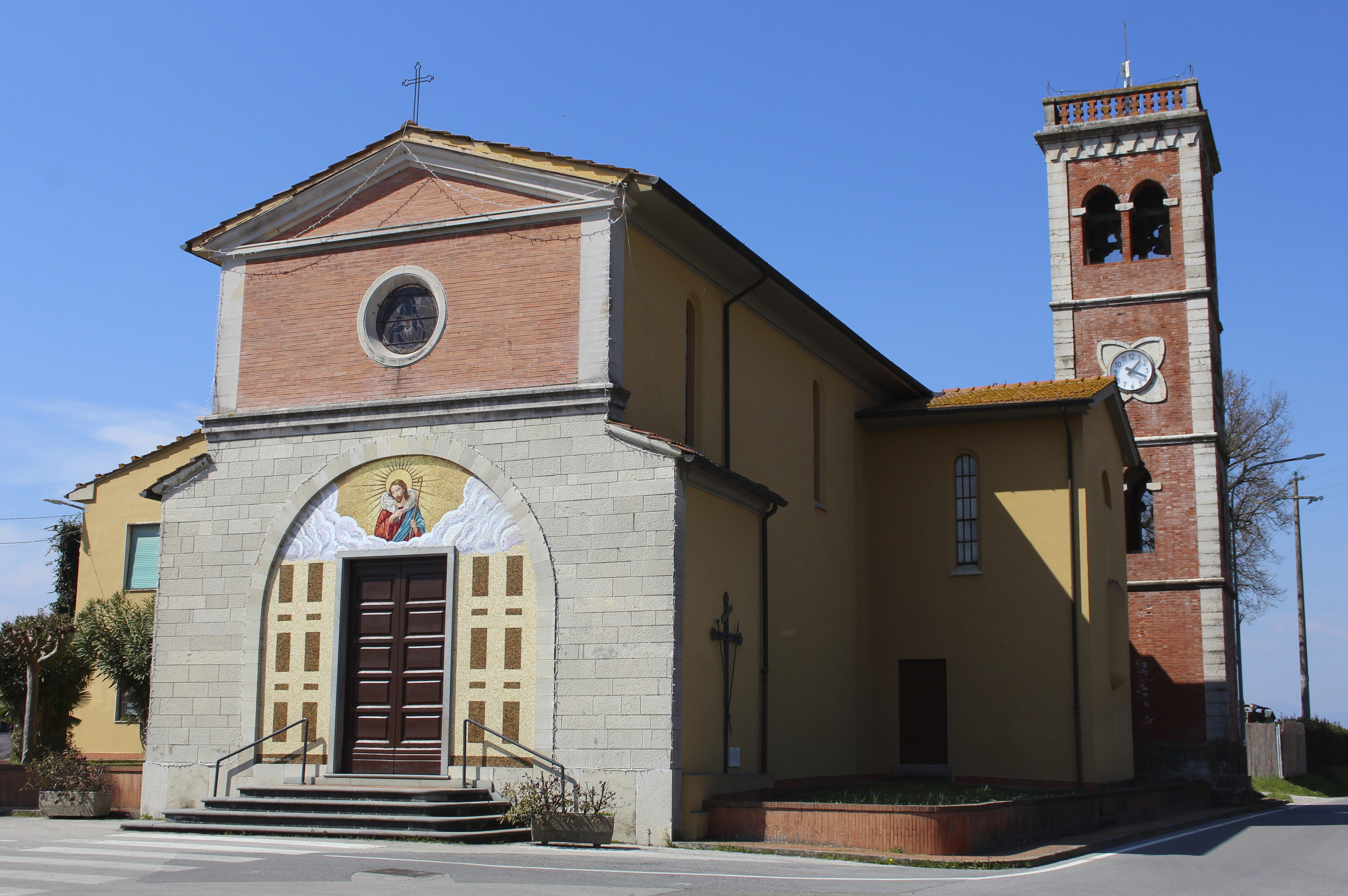 Church San Pietro d'Alcantara, Villa Campanile, hamlet of Castelfranco di Sotto, Province of Pisa, Tuscany, Italy